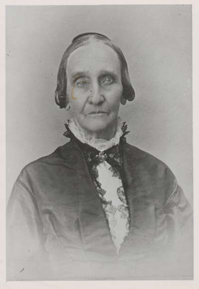 Amy Post